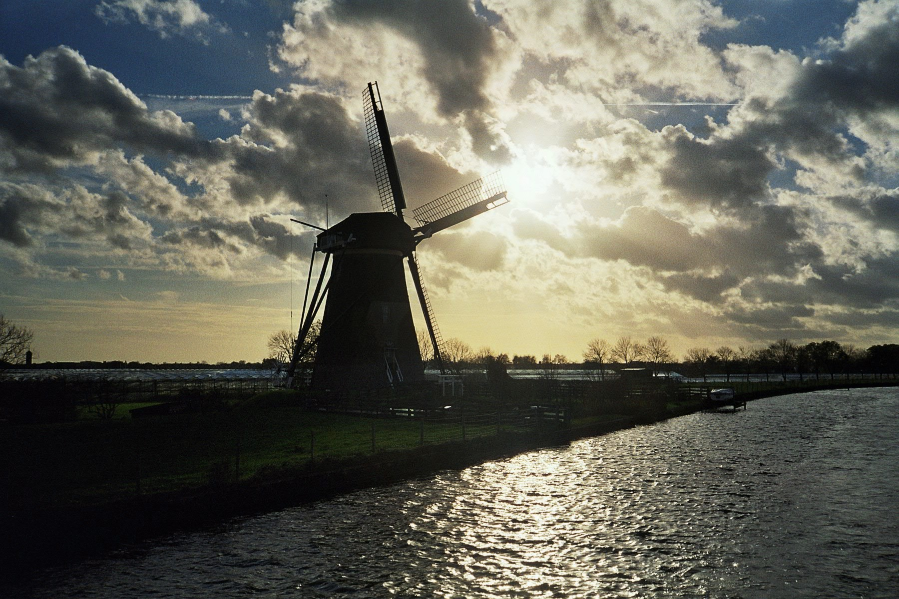 Windmill "Adermolen" "Googermolen", The Netherlands